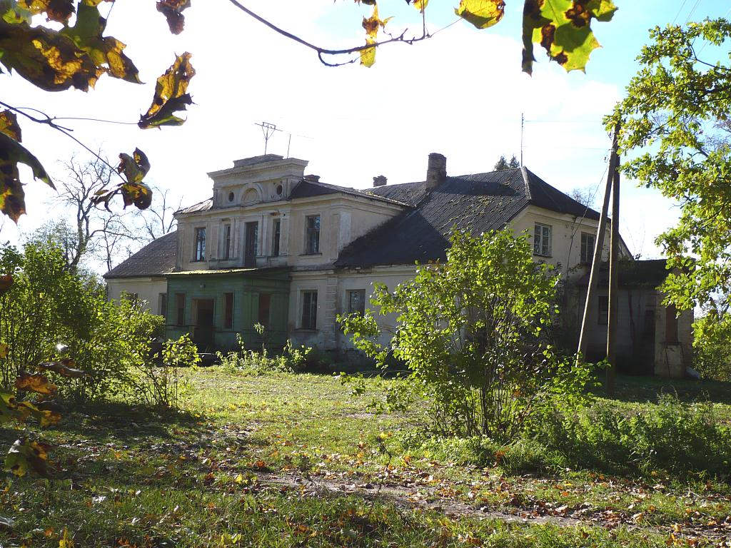 Vecmēmele Manor